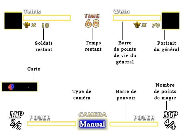 Interface the battle mode of the video game Dragon Force